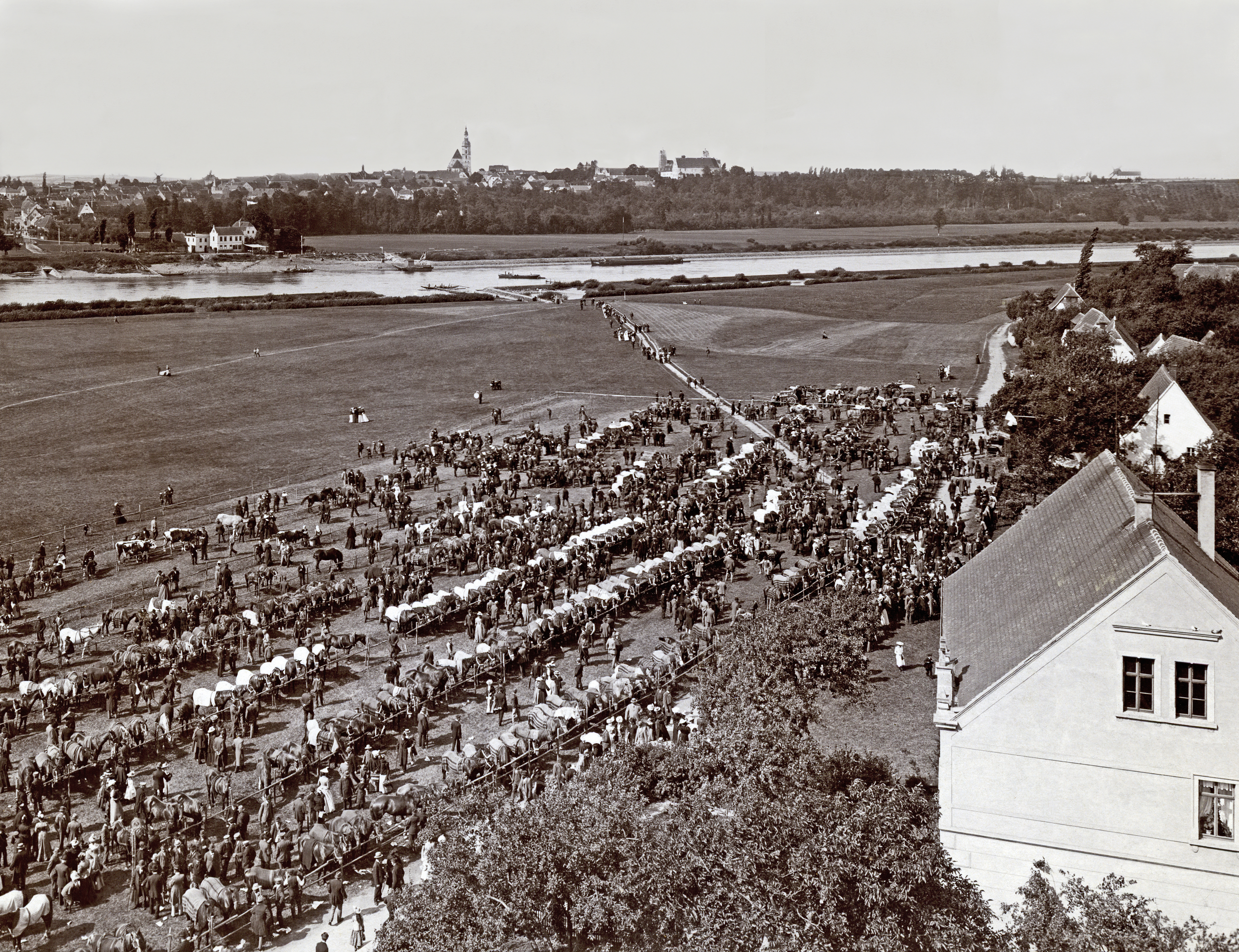 A part of the horse market in Lorenzkirch, Zeithain, Saxony, Germany. View from the church steeple in Lorenzkirch to the horse market, to the river Elbe and to the town Strehla.